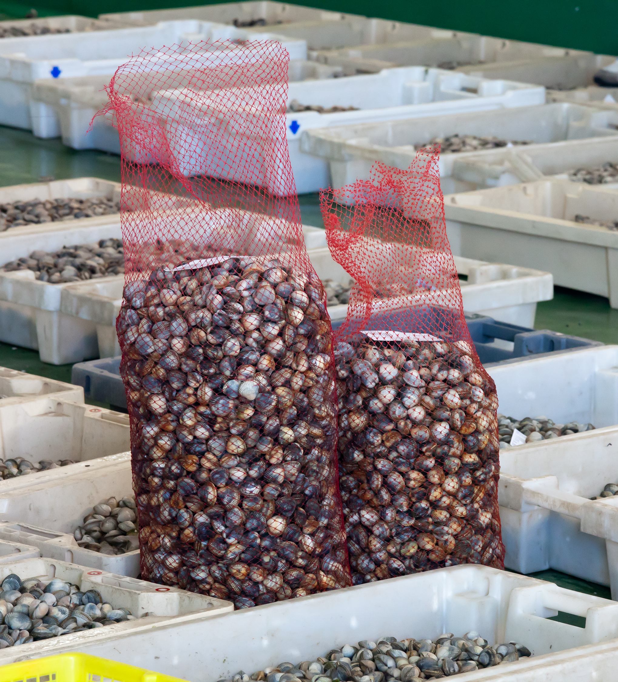 Cockles (Cerastoderma edule), fish market of O Carril, Vilagarcía de Arousa, Galicia, SpainGalego: Berberechos (Cerastoderma edule), lonxa do Carril, Vilagarcía de Arousa, Galiza